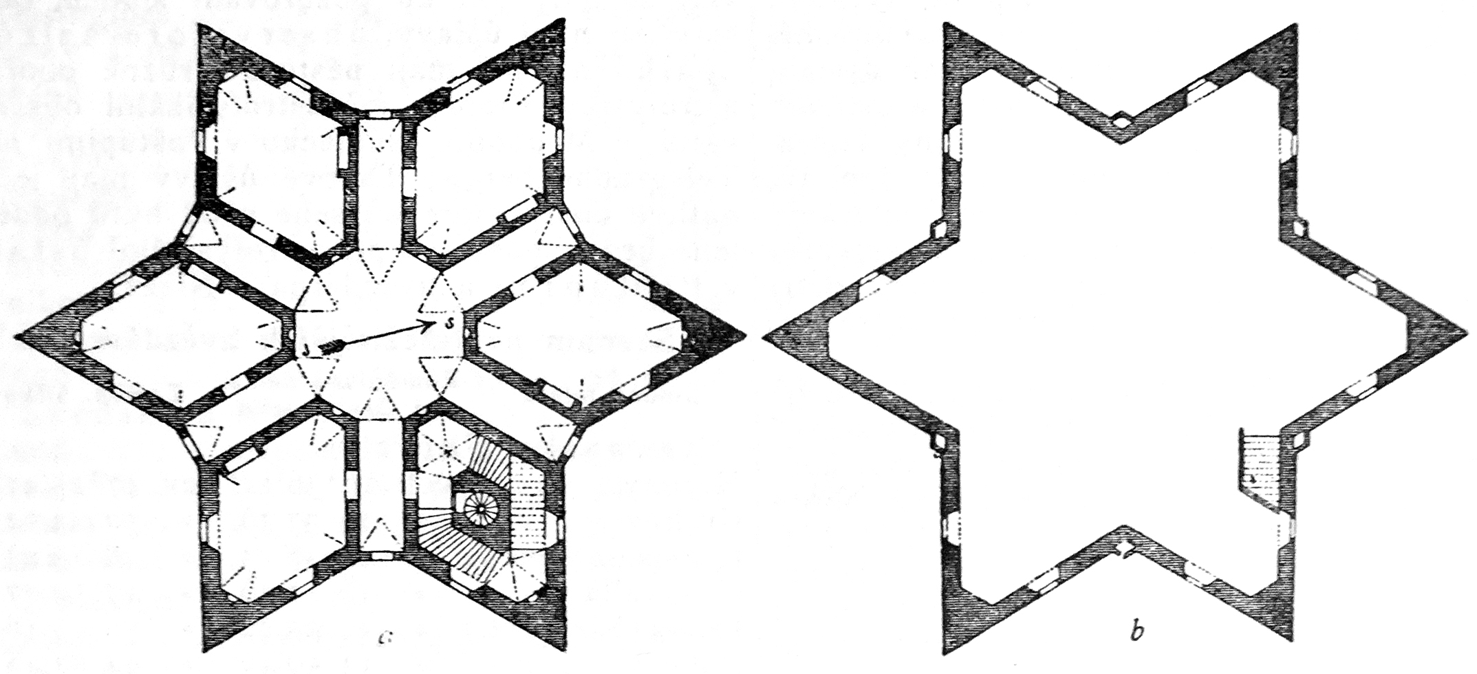 Plan view of the Star Royal Summer Palace (královský letohrádek Hvězda) in Prague. a – first floor, b – second floor.